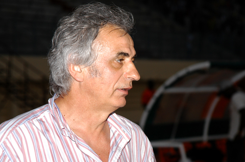 Vahid Halilhodžić, association football national coach of Cote d'Ivoire